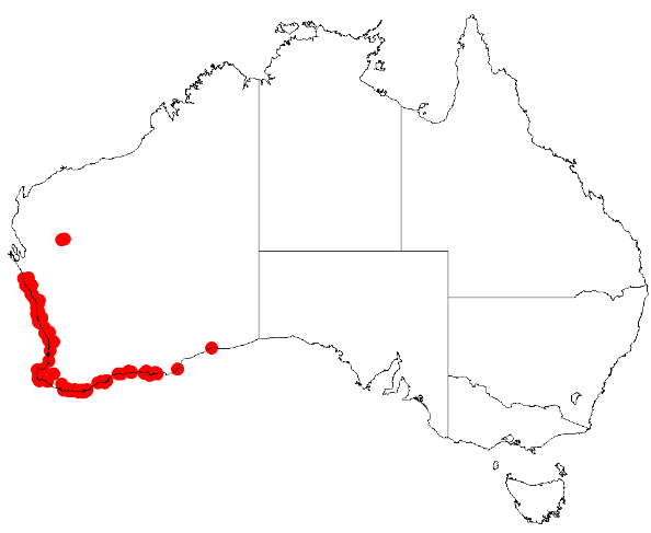 Scaevola globulifera occurrence data downloaded from Australasian Virtual Herbarium 12 May 2019